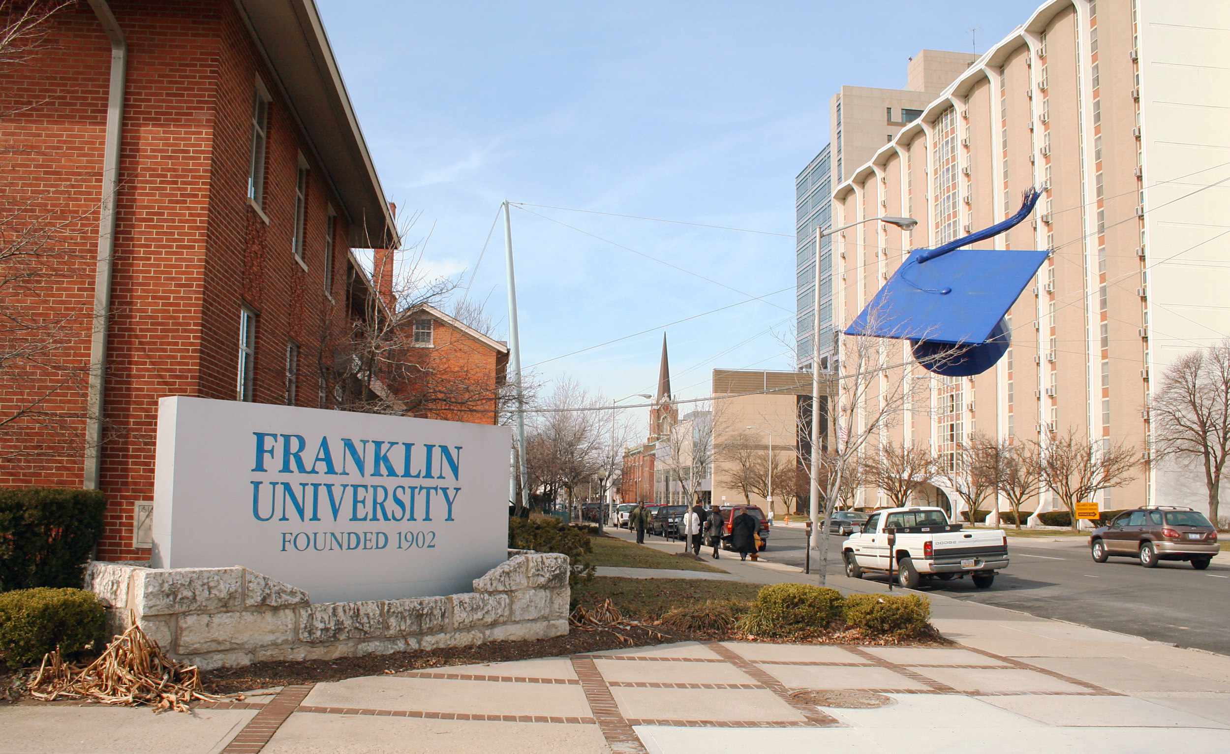 Main corner of Franklin University campus in Columbus, Ohio, with its landmark giant mortar board. Photo shot by Derek Jensen (Tysto), 2006-02-15